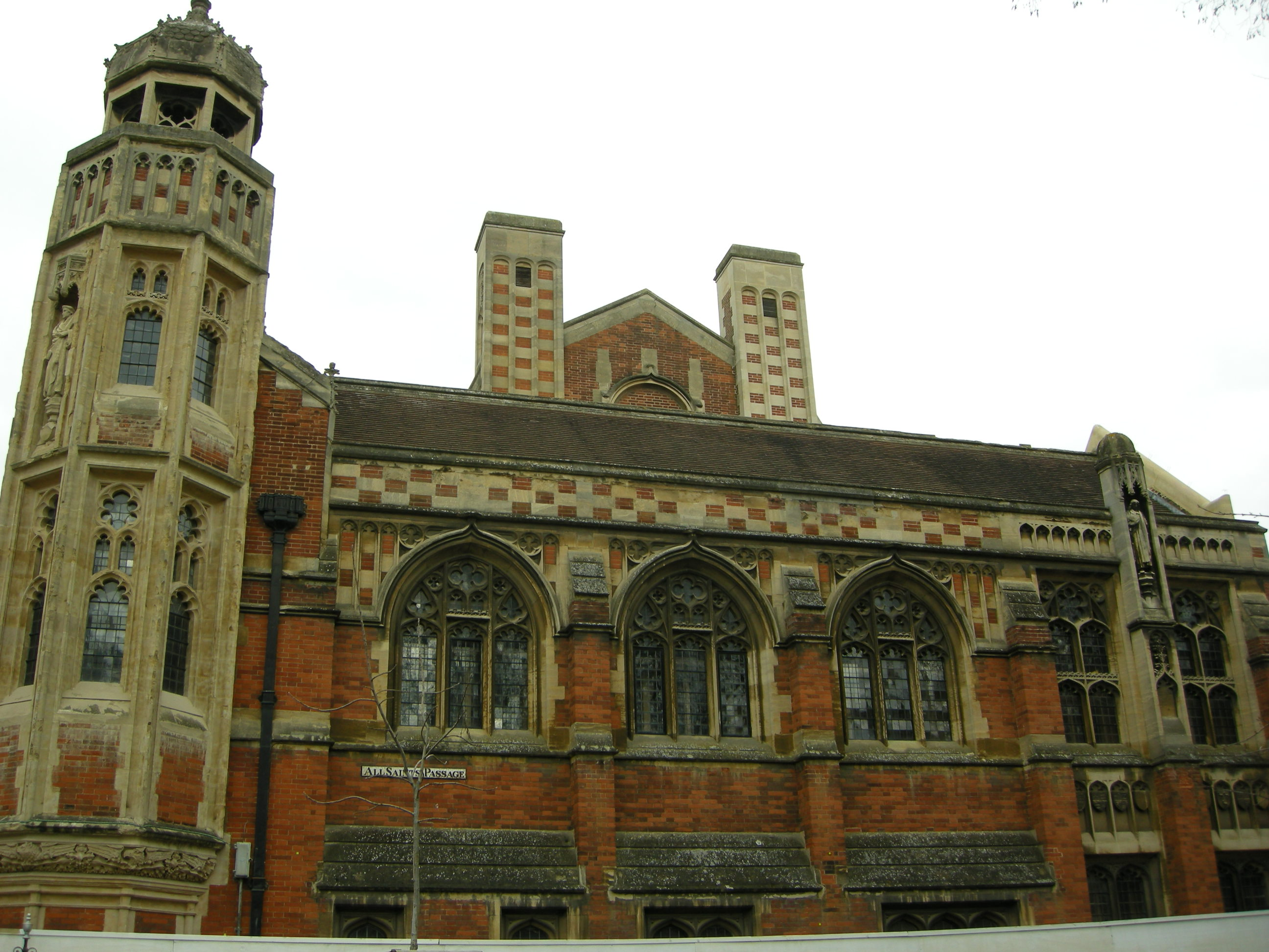 Cambridge, Saint John's street